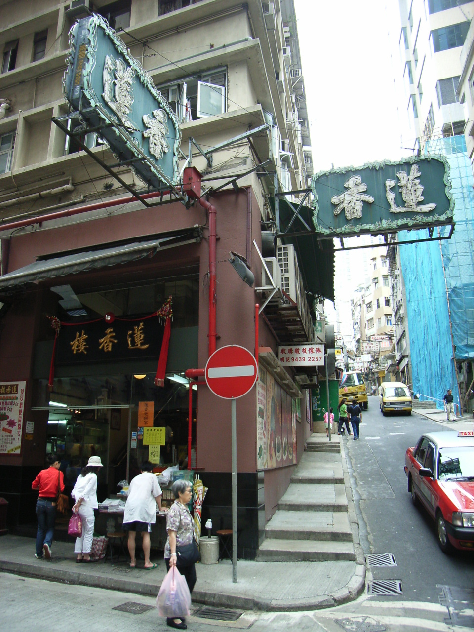 香港蓮香樓 by WAHKEE